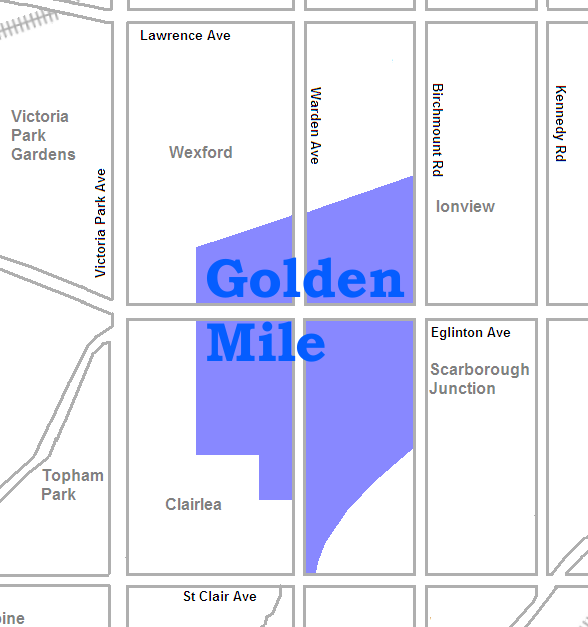 map of Golden Mile, Toronto